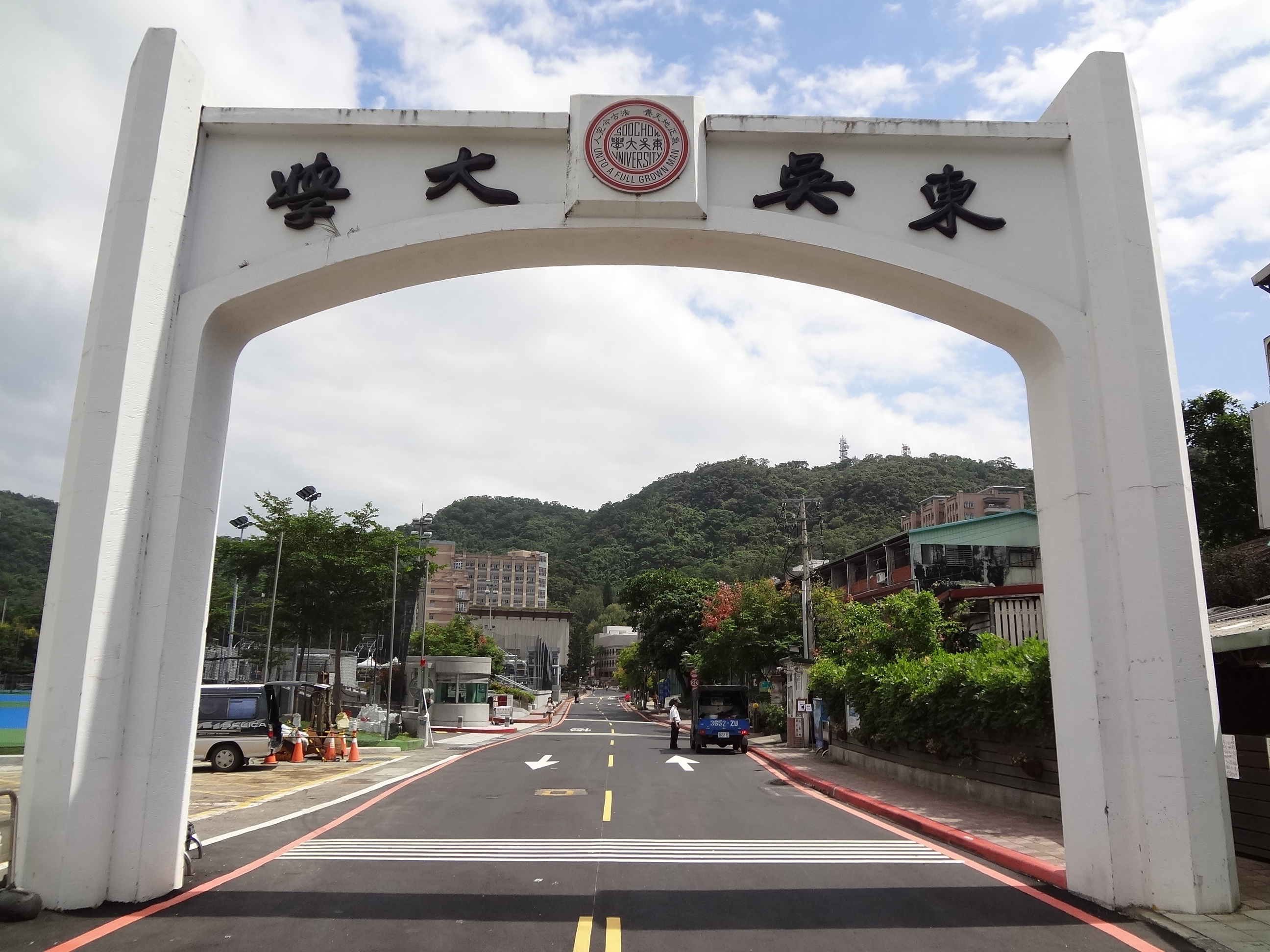 The main gate of Waishuanghsi Campus, Soochow University.